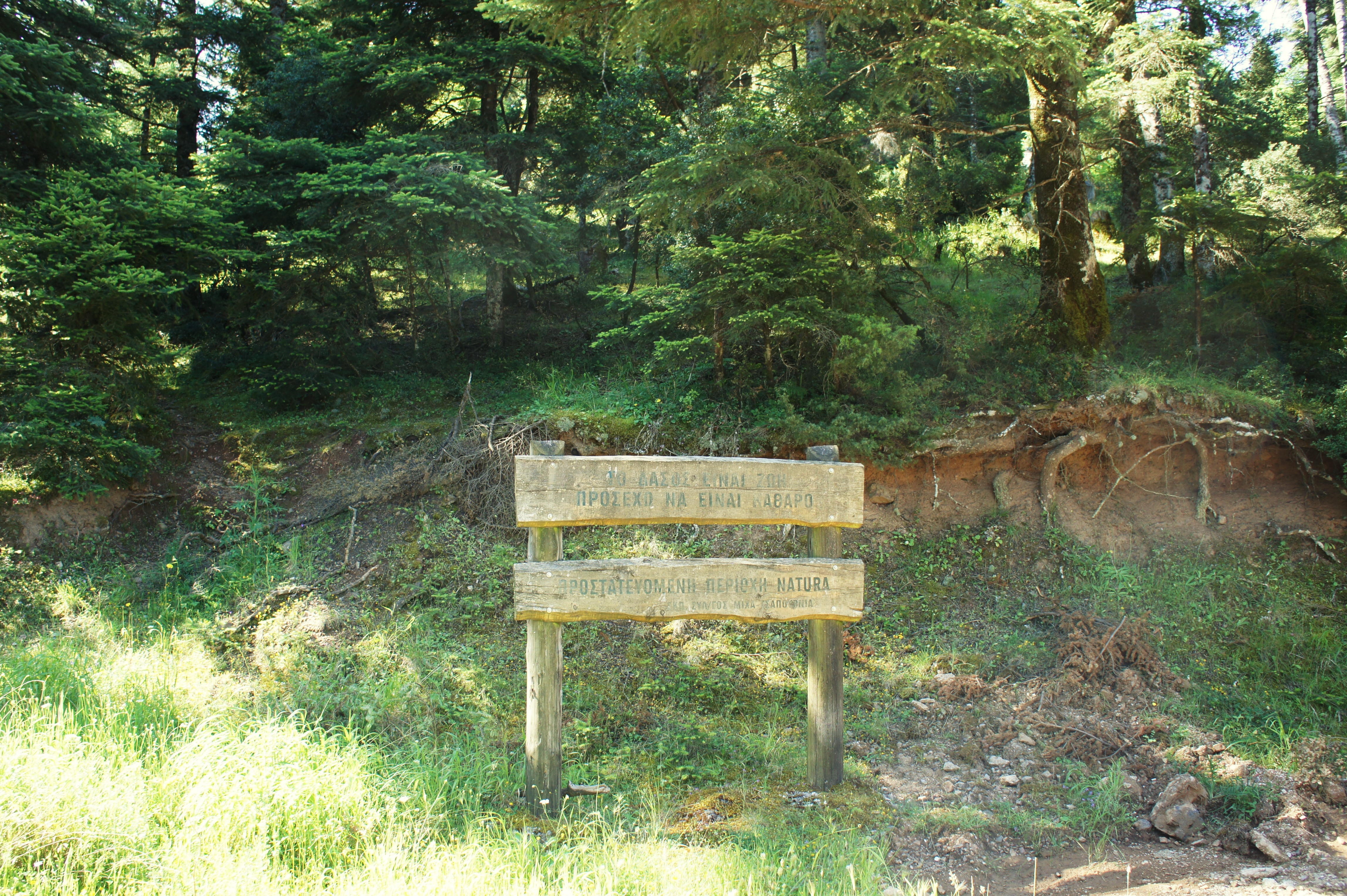 This is a photography of Natura 2000 protected area with ID GR2320008